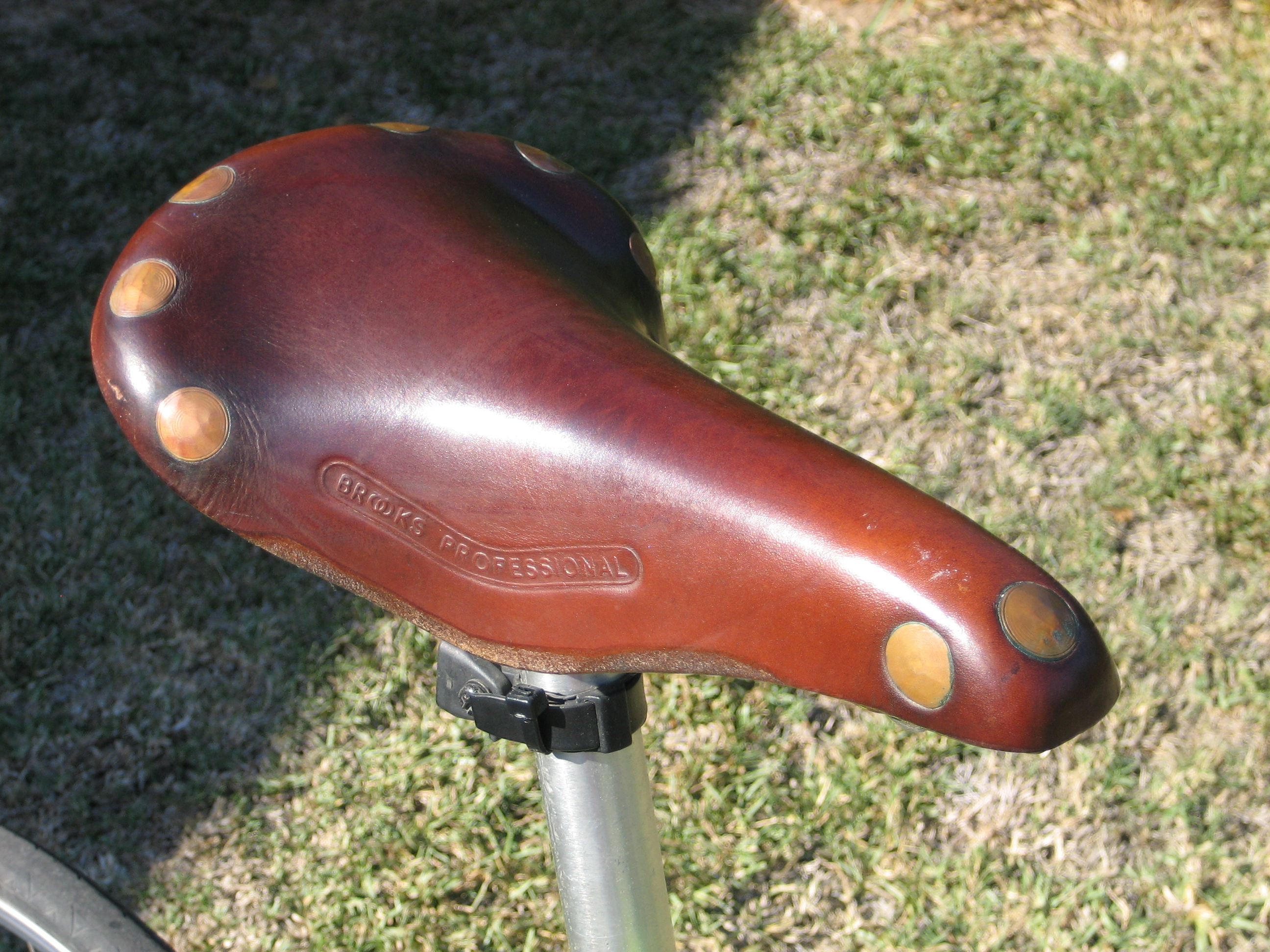 Brooks Professional Saddle